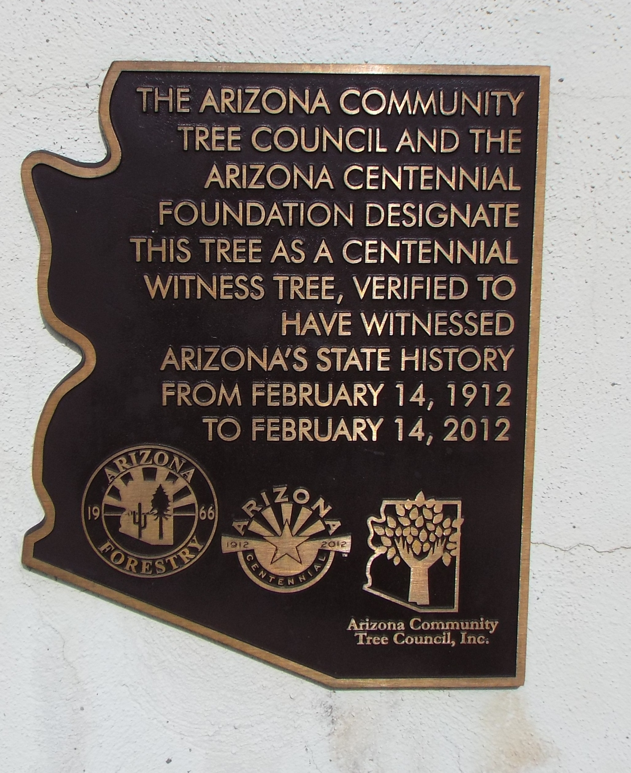 Historic Centennial Tree plaque-1912-in Prescott, Az